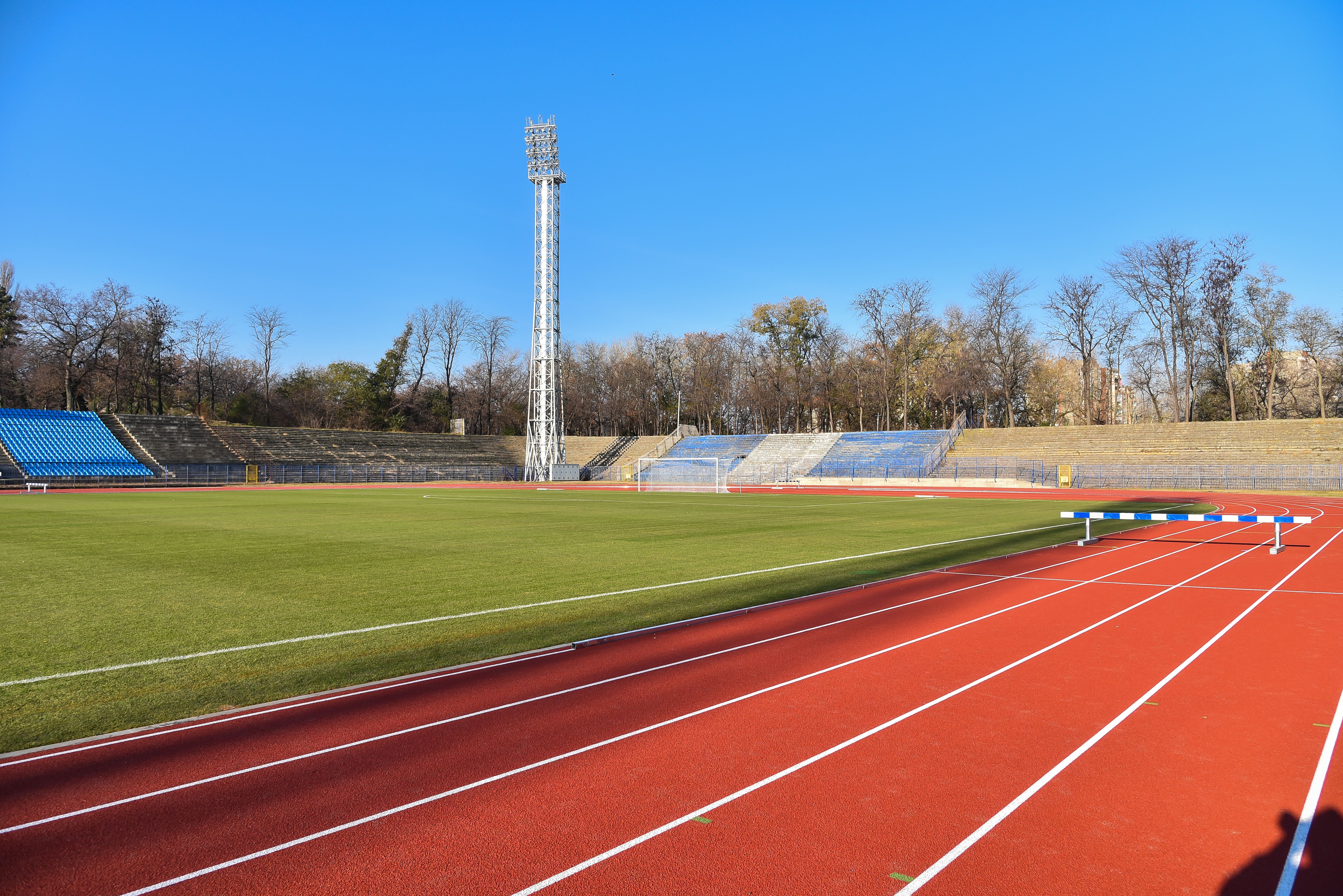 Subotica City Stadium, Subotica, Serbia Српски (ћирилица): Градски стадион Суботица, Суботица, Србија.